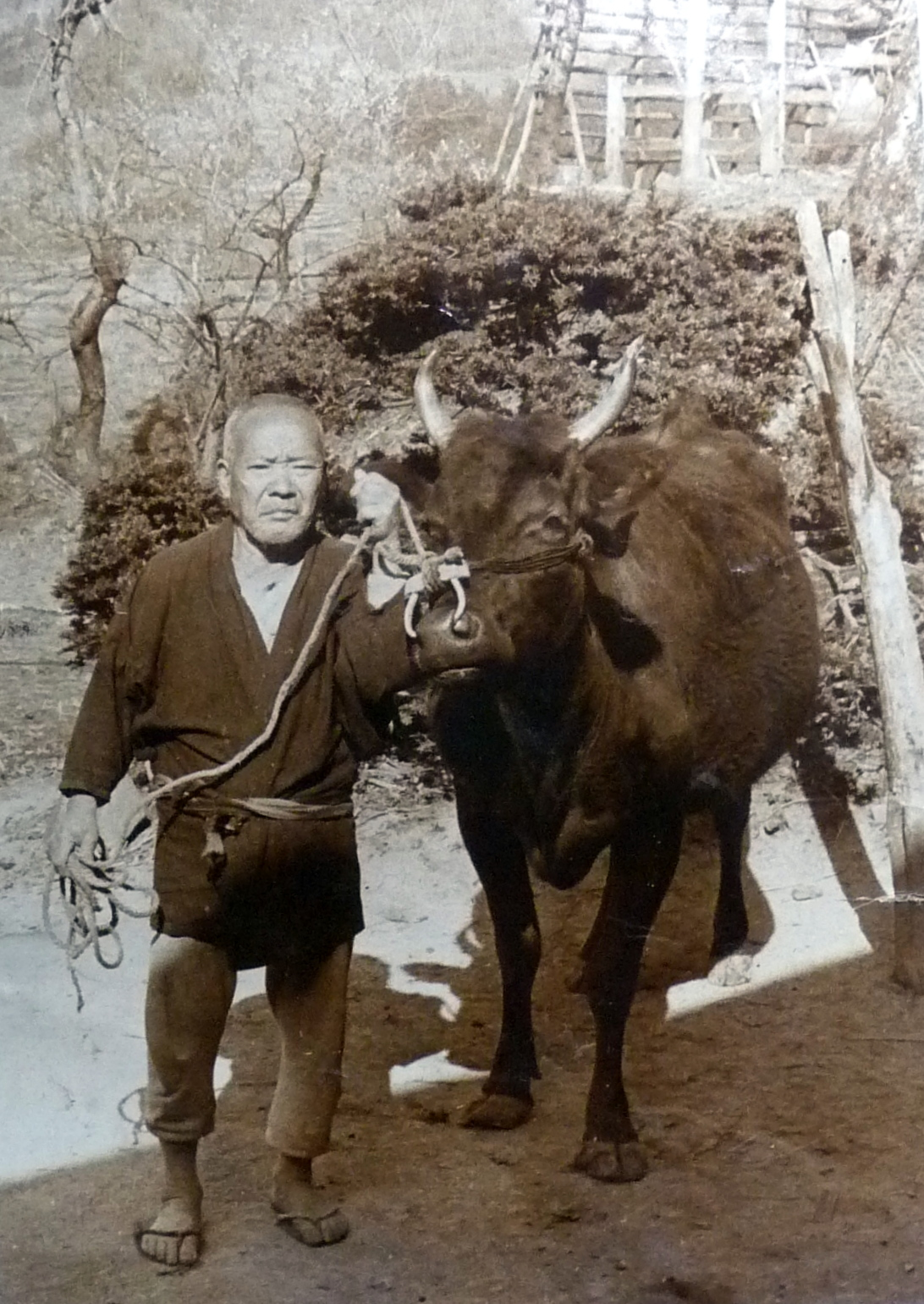 Mr. Matsuzo Tajiri & "Fukue", the mother of super cattle "Tajiri"